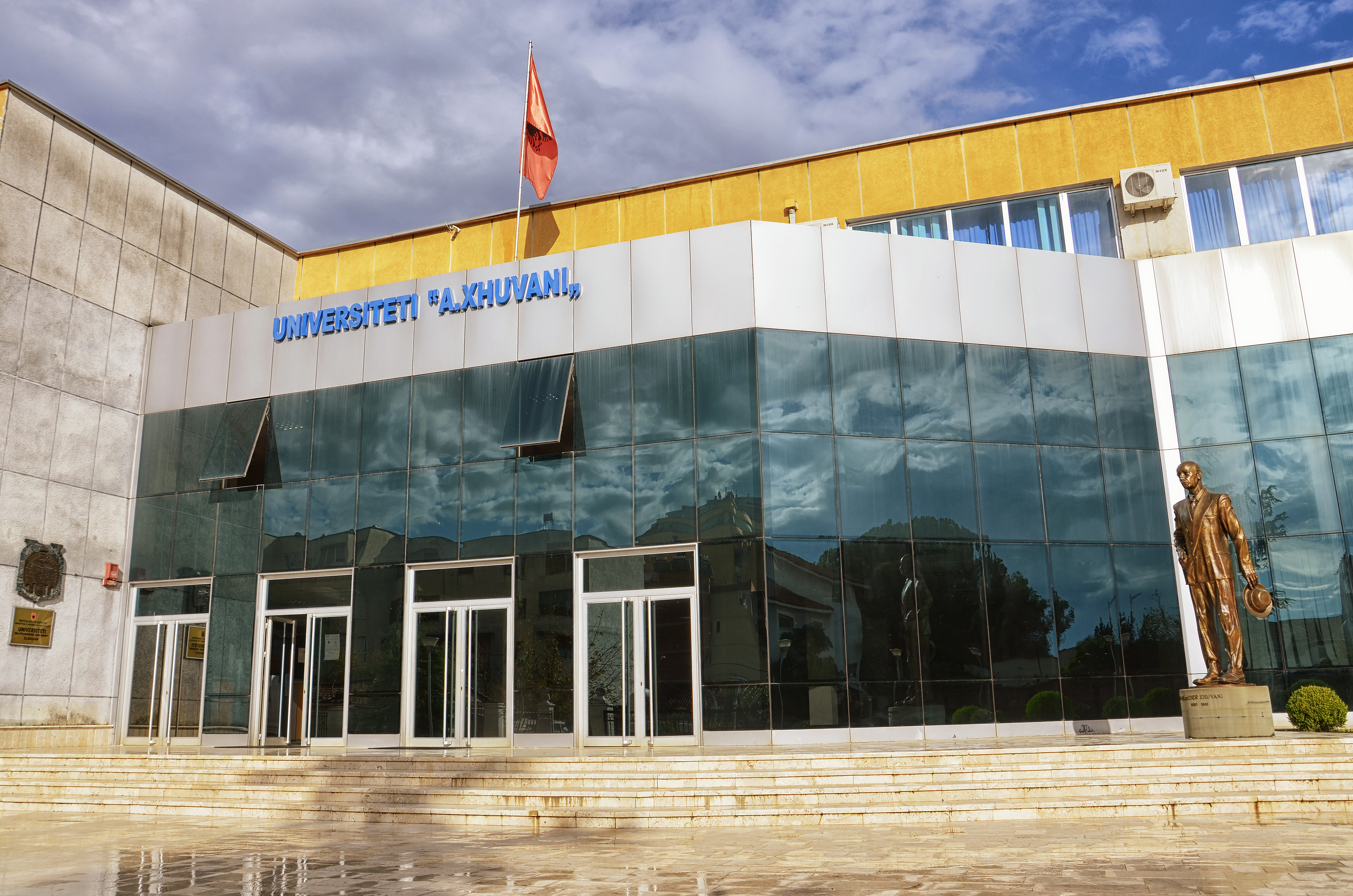 The main building of the University Aleksandër Xhuvani in Elbasan, Albania